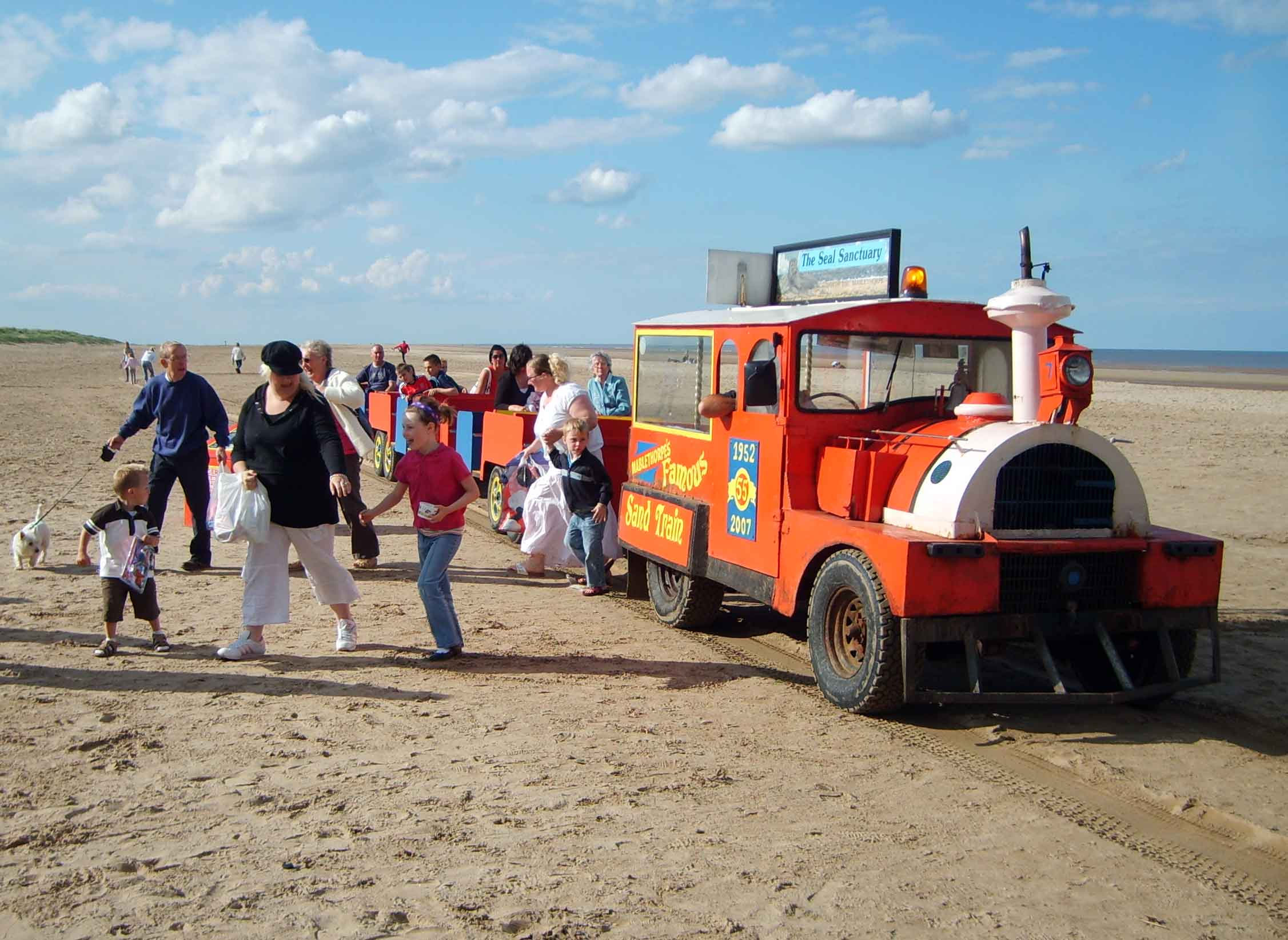 Mablethorpe's famous Sand Train during Summer 2007.